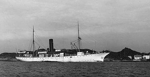 Norwegian passenger ship DS Dronningen near Lillesand (?). This ship was built in 1894 and was later employed as a relief ship in the coastal express service (Hurtigruten) between 1941 and 1946. Norsk (bokmål): Passasjerskipet DS «Dronningen» ved Lillesand (?). Skipet ble bygd i 1894, og mellom 1941 og 1946 gikk hun i perioder som avløserskip i Hurtigruten.